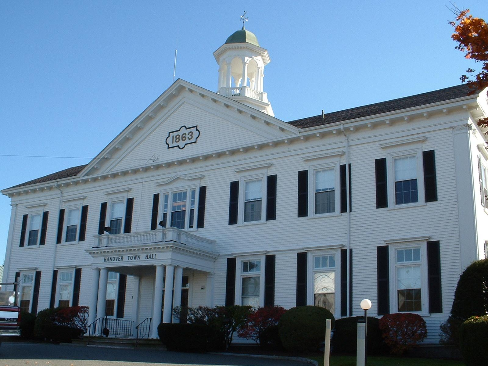 Hanover Town Hall, Hanover, Massachsuetts